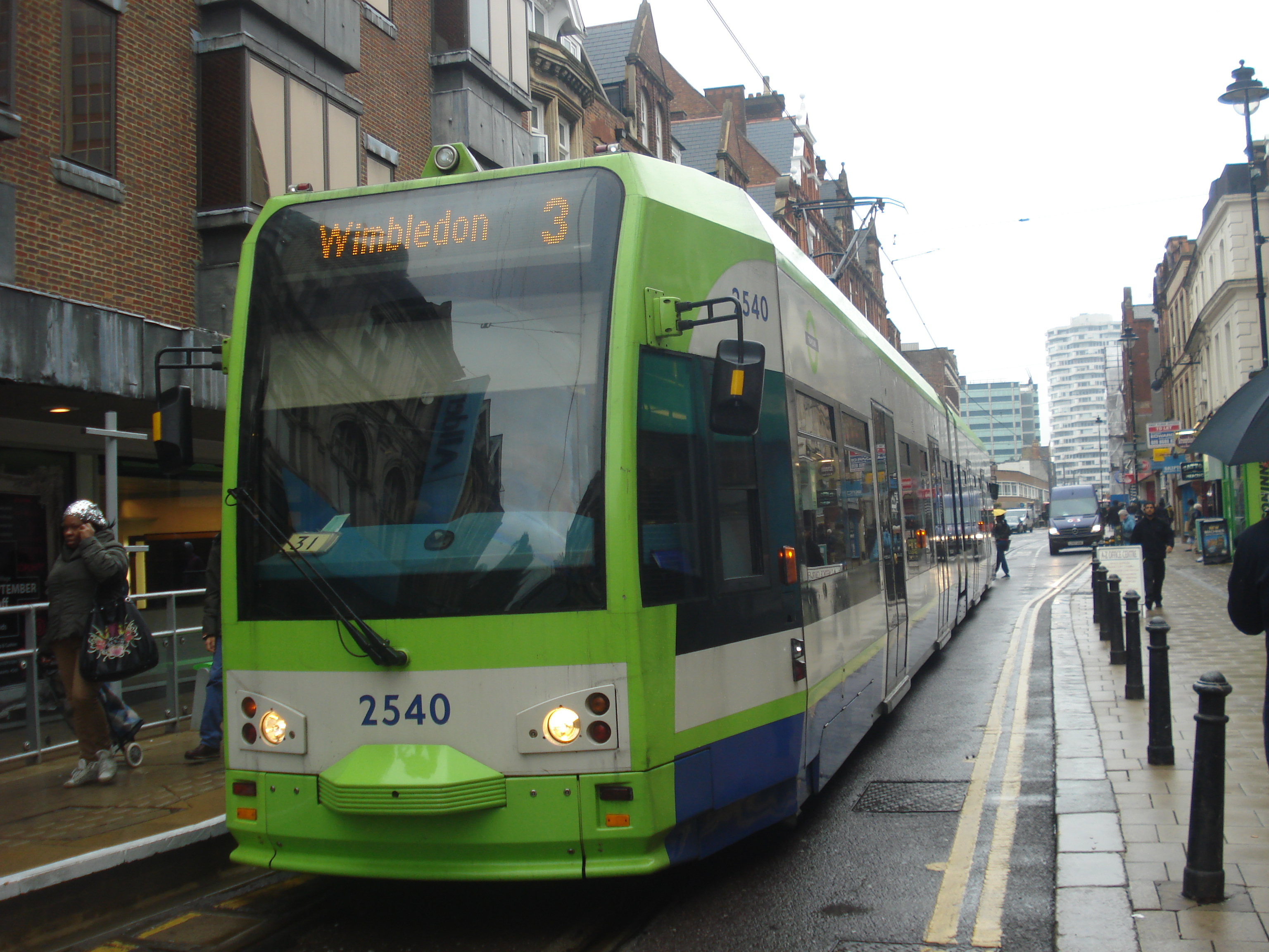 Tramlink 2540 on Route 3, George Street